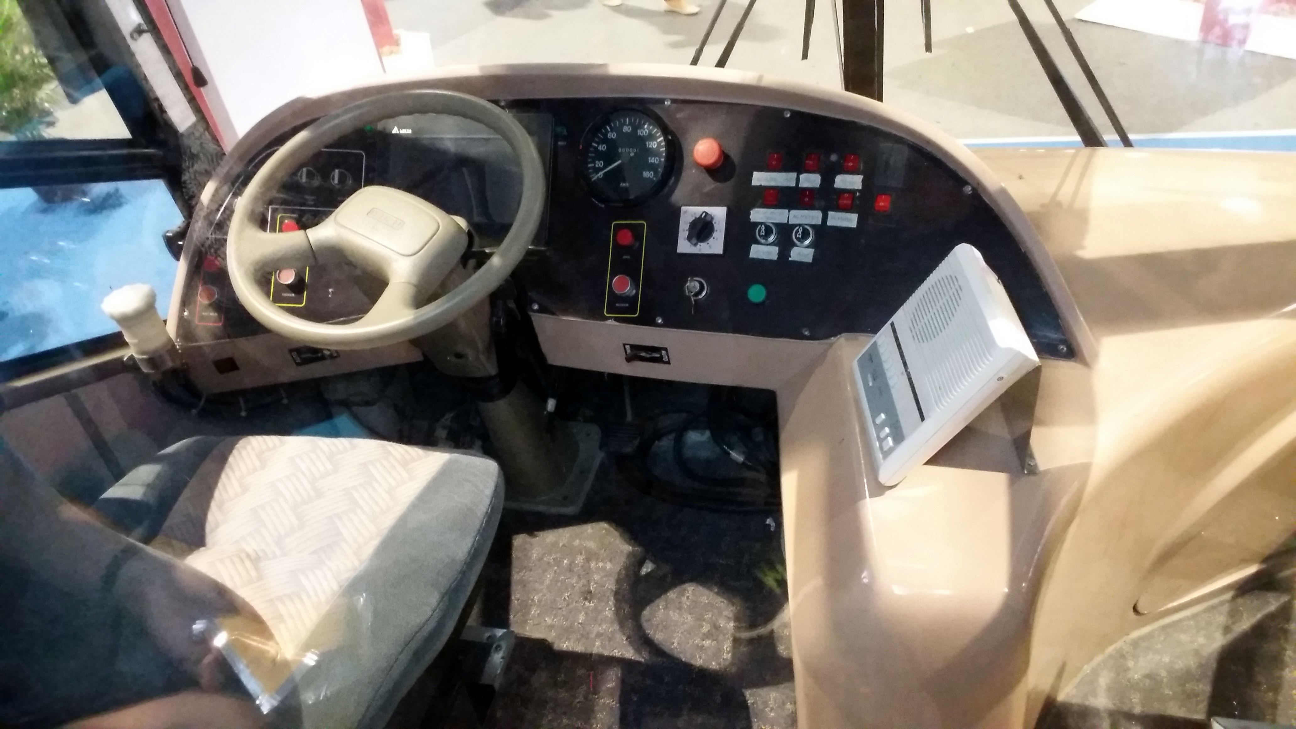 The Driver's Cab of the Hybrid Electric Road Train (HERT). Photo taken during the 2015 Science Nation Exhibit at the SMX Mall of Asia Convention Center.